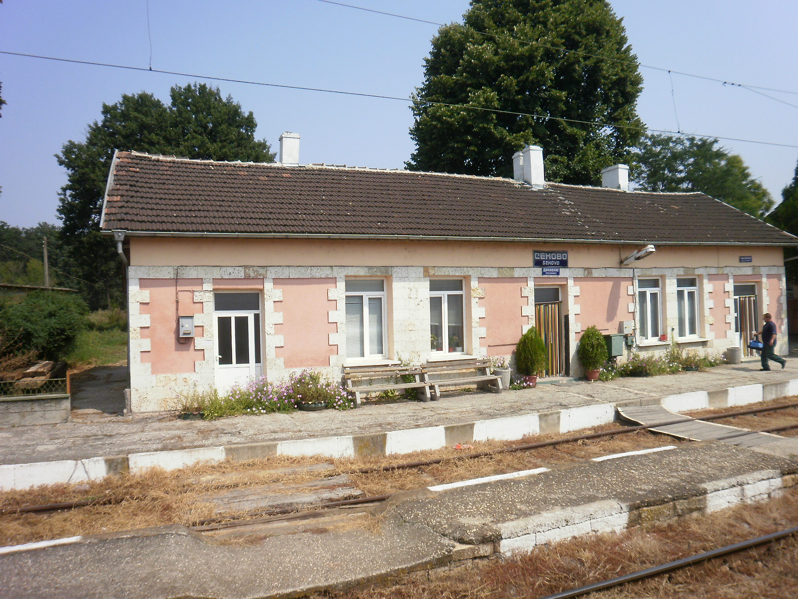 Senovo station, Rousse, Bulgaria.